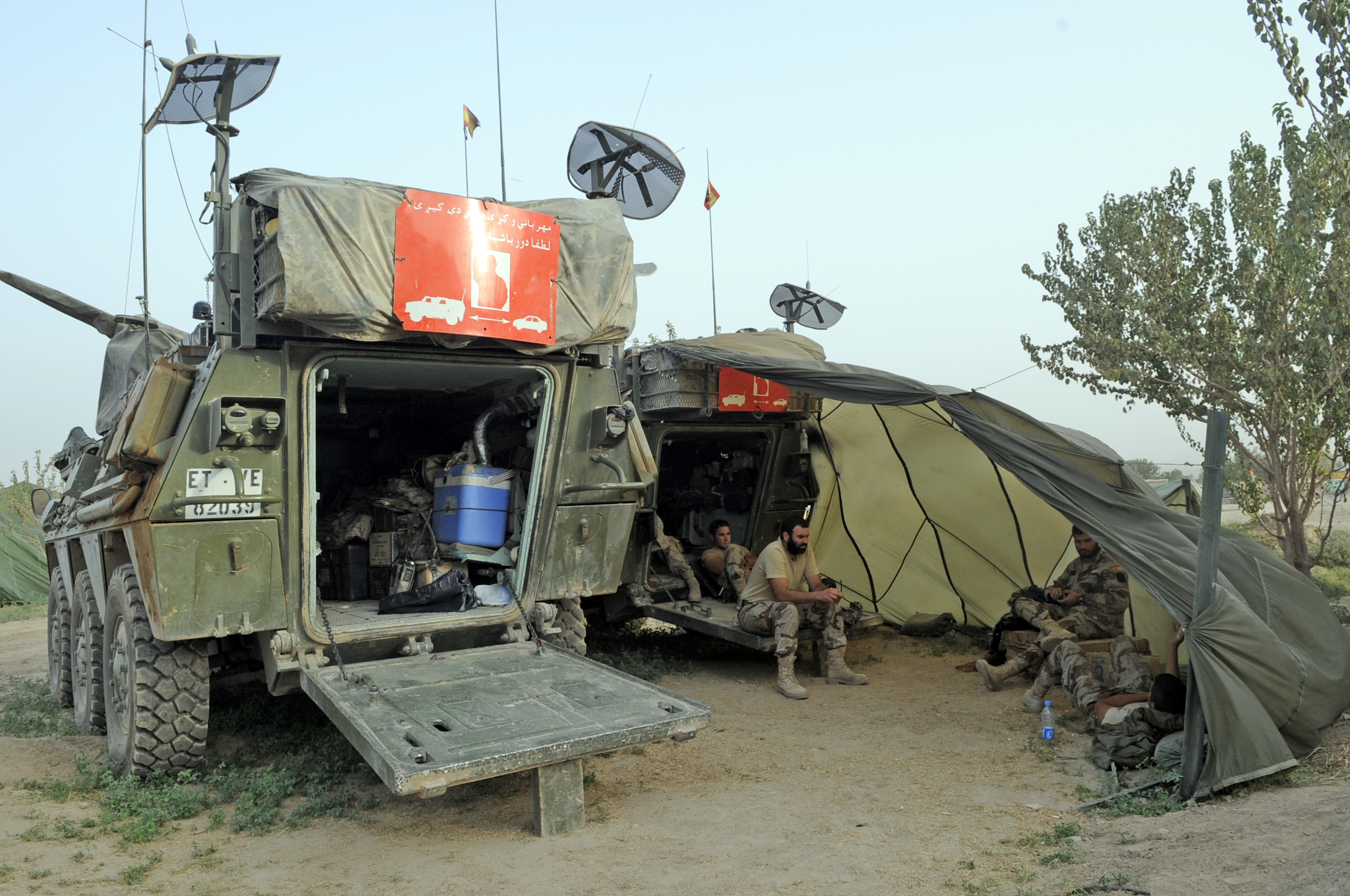 BALA MURGHAB, Afghanistan- Spanish Army Paratroopers relax after conduction a mission at International Security Assistance Force Forward Operating Base Bala Murghab, October 2, 2008. ISAF is assisting the Afghan government in extending and exercising its authority and influence across the country, creating the conditions for stabilization and reconstruction. (ISAF photo by U.S. Air Force TSgt Laura K. Smith)(released)